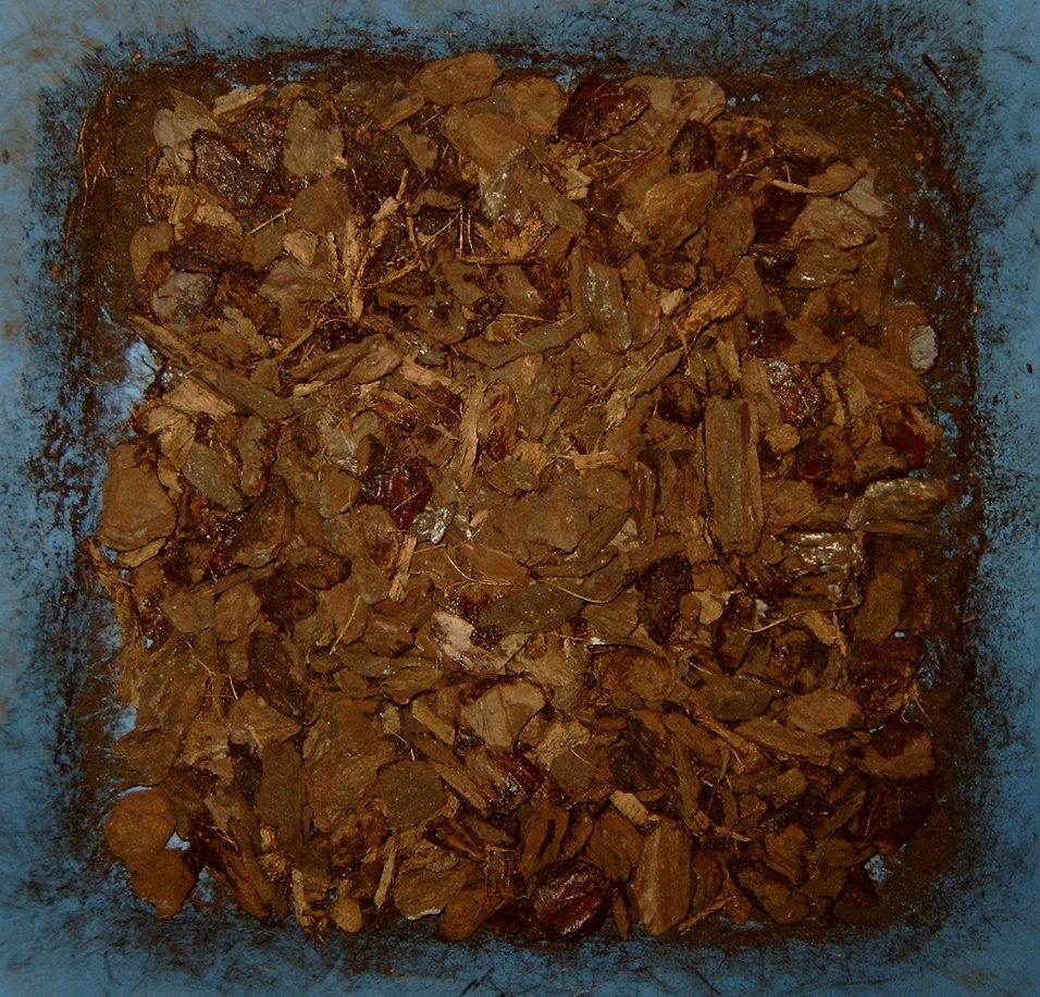 potting soil for orchids